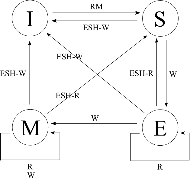 Write-once cache diagram